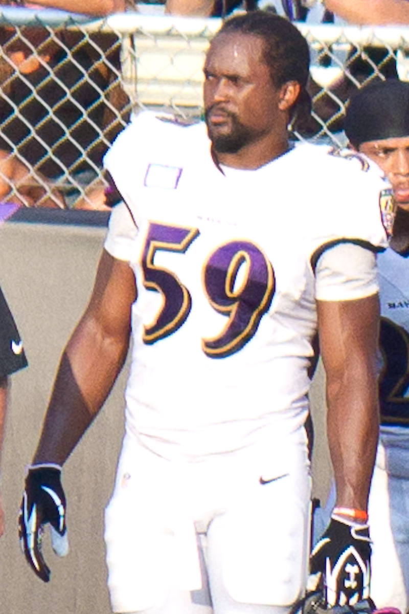 Arthur Brown at Ravens Stadium Practice Aug 2013